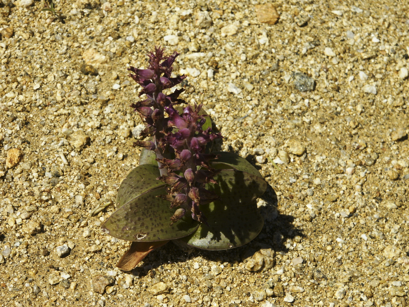 (Lachenalia carnosa Baker), flowering Desert, Namaqualand, Goegap Nature Reserve, Northern Cape, South Africa